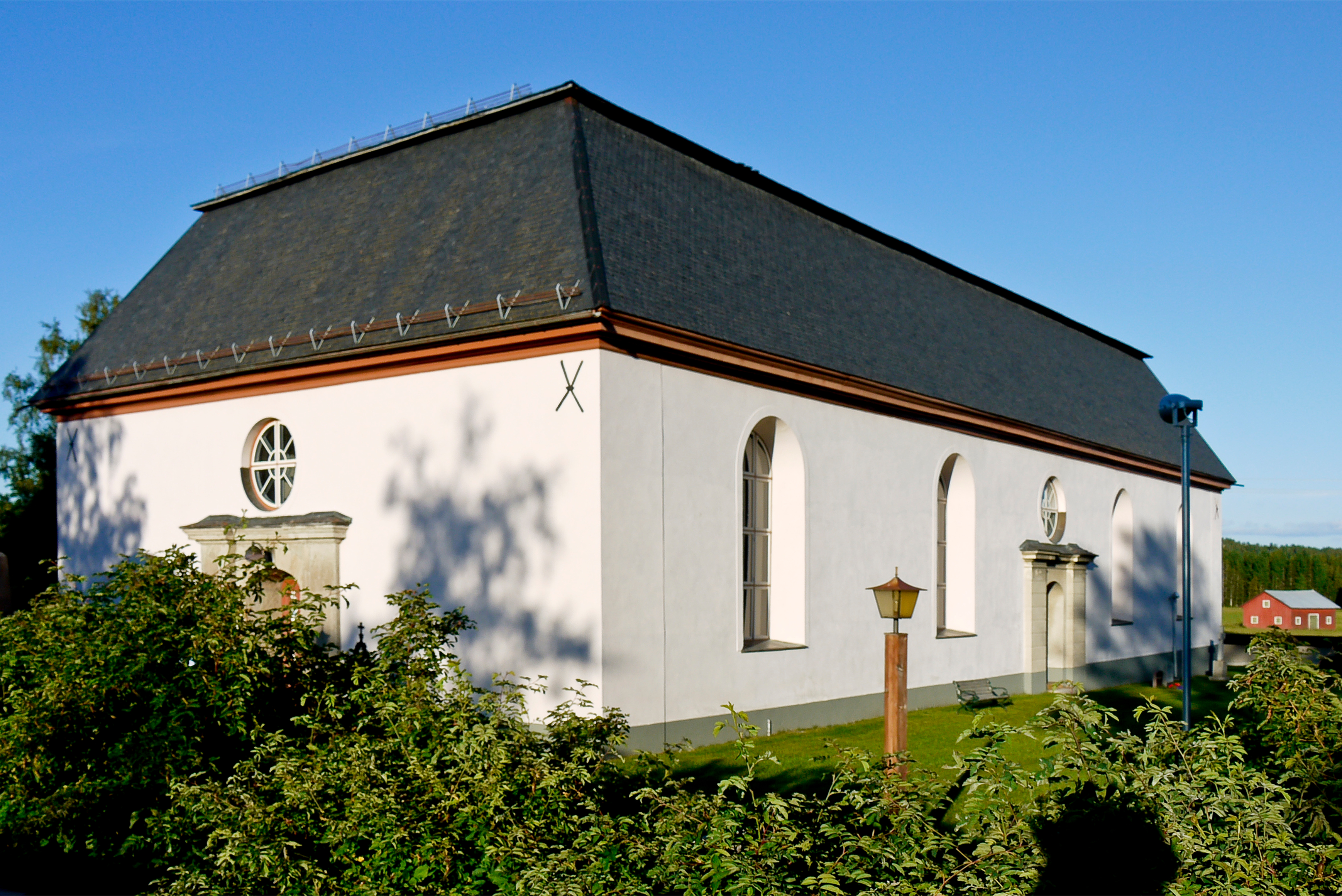 Side view. Brunflo kyrka/church. Diocese of Härnösand. Östersund kommun. Jämtland. Sweden.